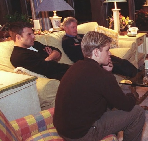 January 11, 1998: President Clinton and Hillary Rodham Clinton hosting a screening of “Good Will Hunting” at Camp David. President Clinton and Hillary Rodham Clinton greet and meet with Robin Williams, Gwyneth Paltrow, Ben Affleck, Matt Damon, Sec. Madeleine Albright and others at the screening.